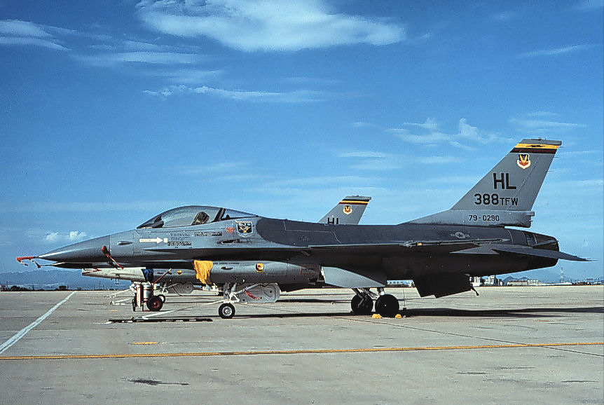 F-16s of the 388th Tactical Fighter Wing